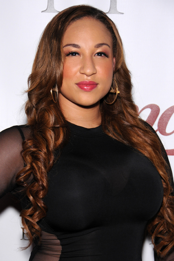 Melanie Amaro, Hollywood, California on June 14, 2013 - Photo by Glenn Francis of